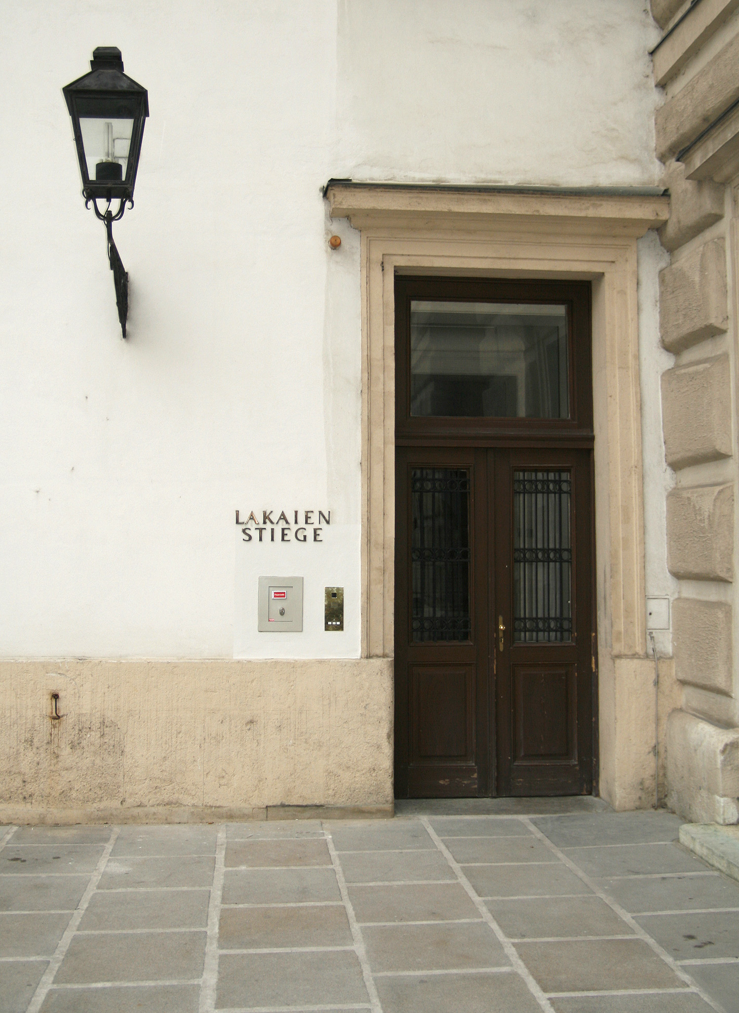 Lakaienstiege (Lackay's stairway) at the Hofburg Imperial Palace in Vienna.